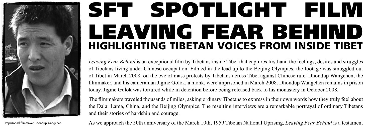 SFT's 2008 Olympics Commemorative Newsletter